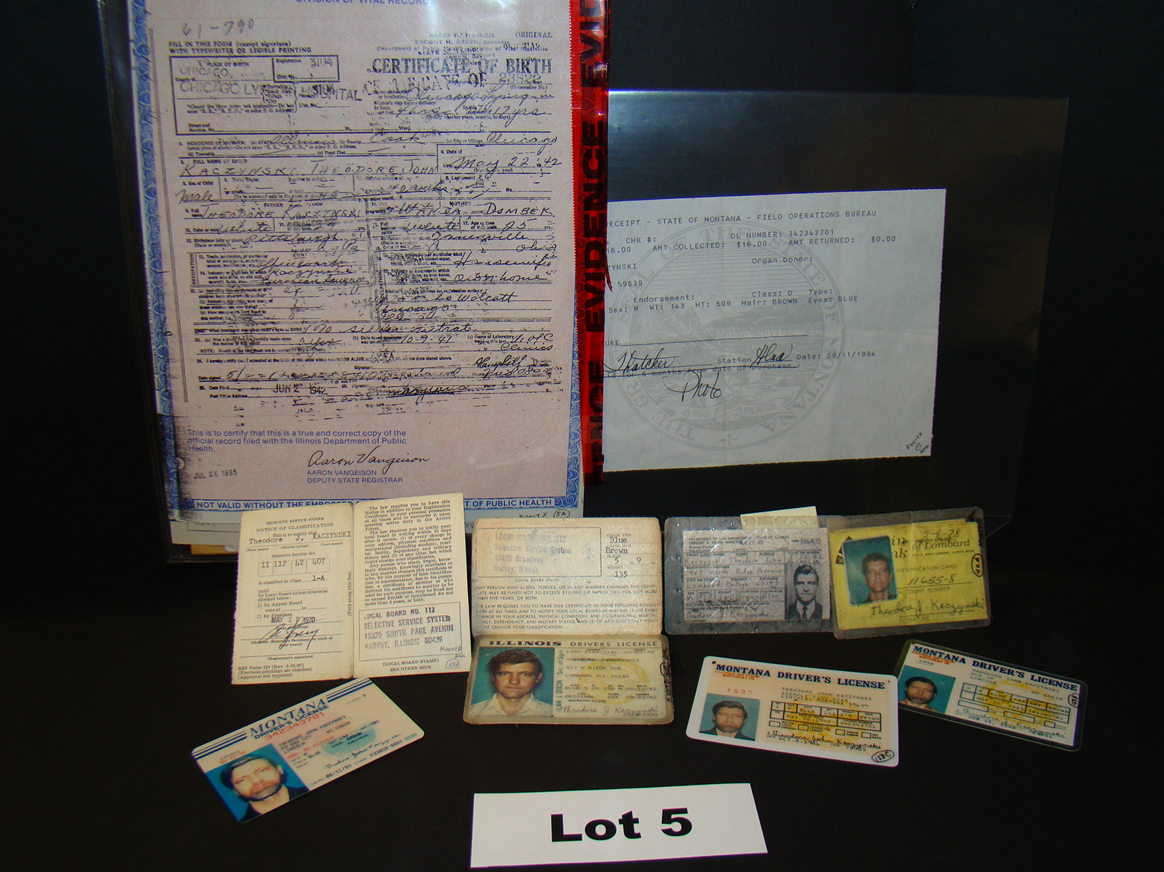 This photo, released by the U.S. Marshals Service, displays one of the lots being sold in an online auction of the personal effects of Ted Kaczynski, aka the “Unabomber.” The U.S. Marshals auction will run from May 18 through June 2. Proceeds from the auction will be used to compensate Kaczynski’s victims. For more information, see the U.S. Marshals news release at (U.S. Marshals photo) Description: A main investigative theory of the UNABOM Task Force was that the UNABOM subject was a white male who spent his life until early adulthood in Illinois, followed by moves to Utah and California. This turned out to be exactly the pattern Kaczynski followed. This copy of his birth certificate partially adhered to the original evidence bag helps confirm this theory.